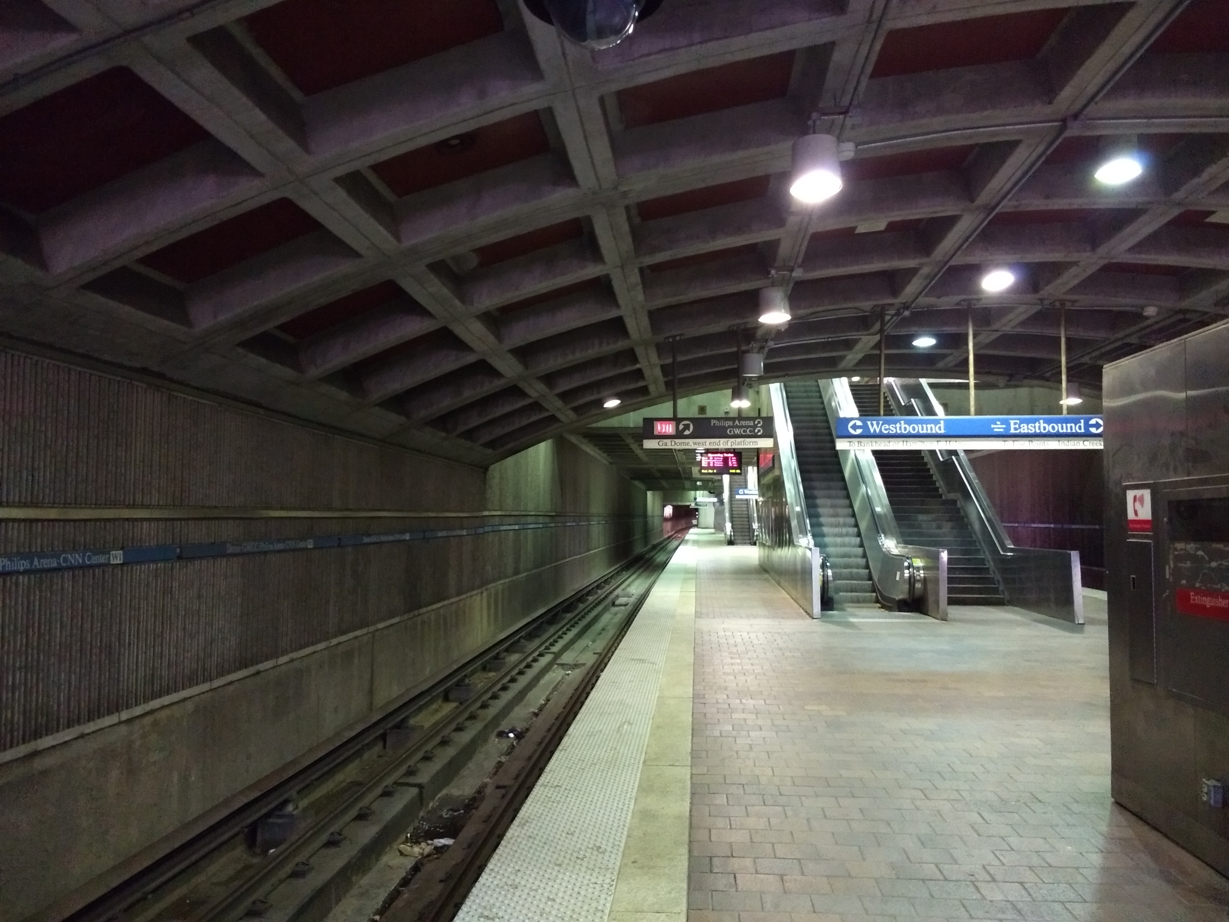 Dome / GWCC / Philips Arena / CNN Center station in Atlanta.